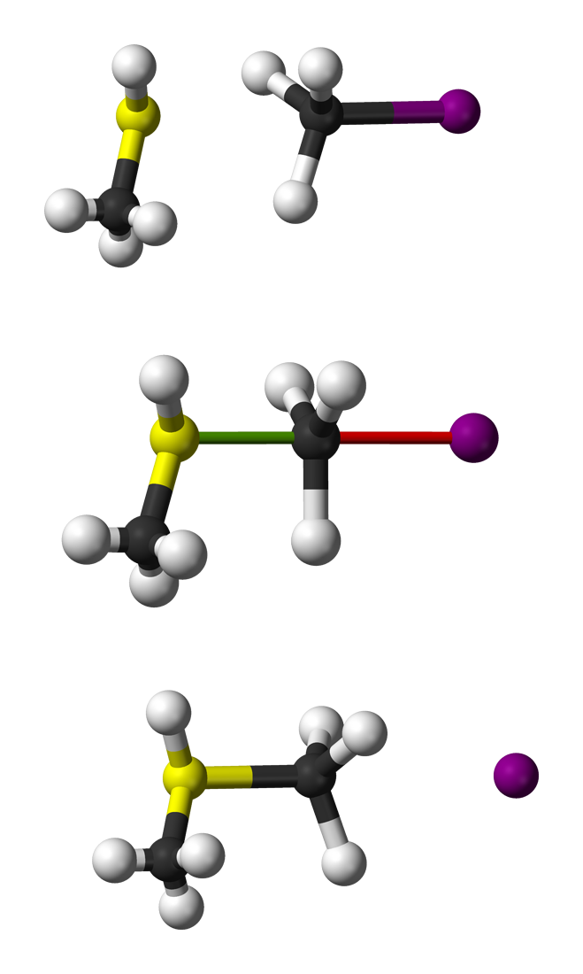 Ball-and-stick montage of three steps in the reaction of methanethiol, CH3SH, with methyl iodide, CH3I, via the SN2 mechanism